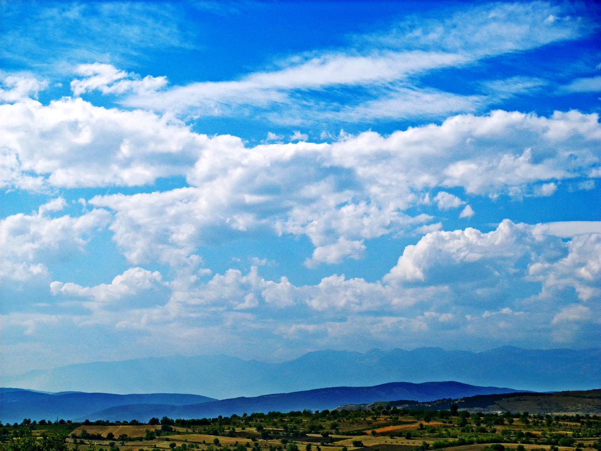 Heavy editing - good result! Today was a lovely day for photographing clouds. Radišani, Macedonia